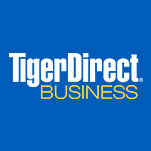 Logo